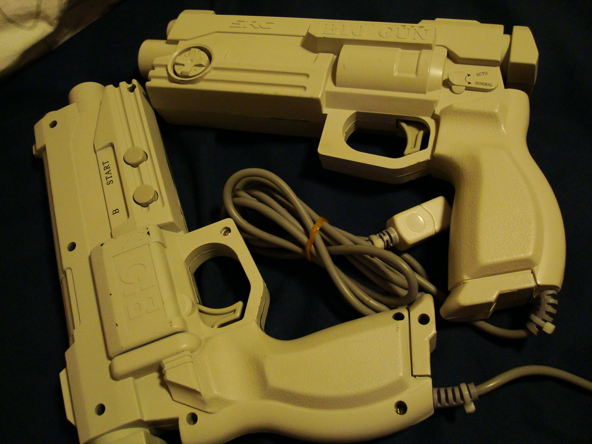 Dreamcast Bio Gun with built-in vibration. I took this photo, bought these guns off the internet.